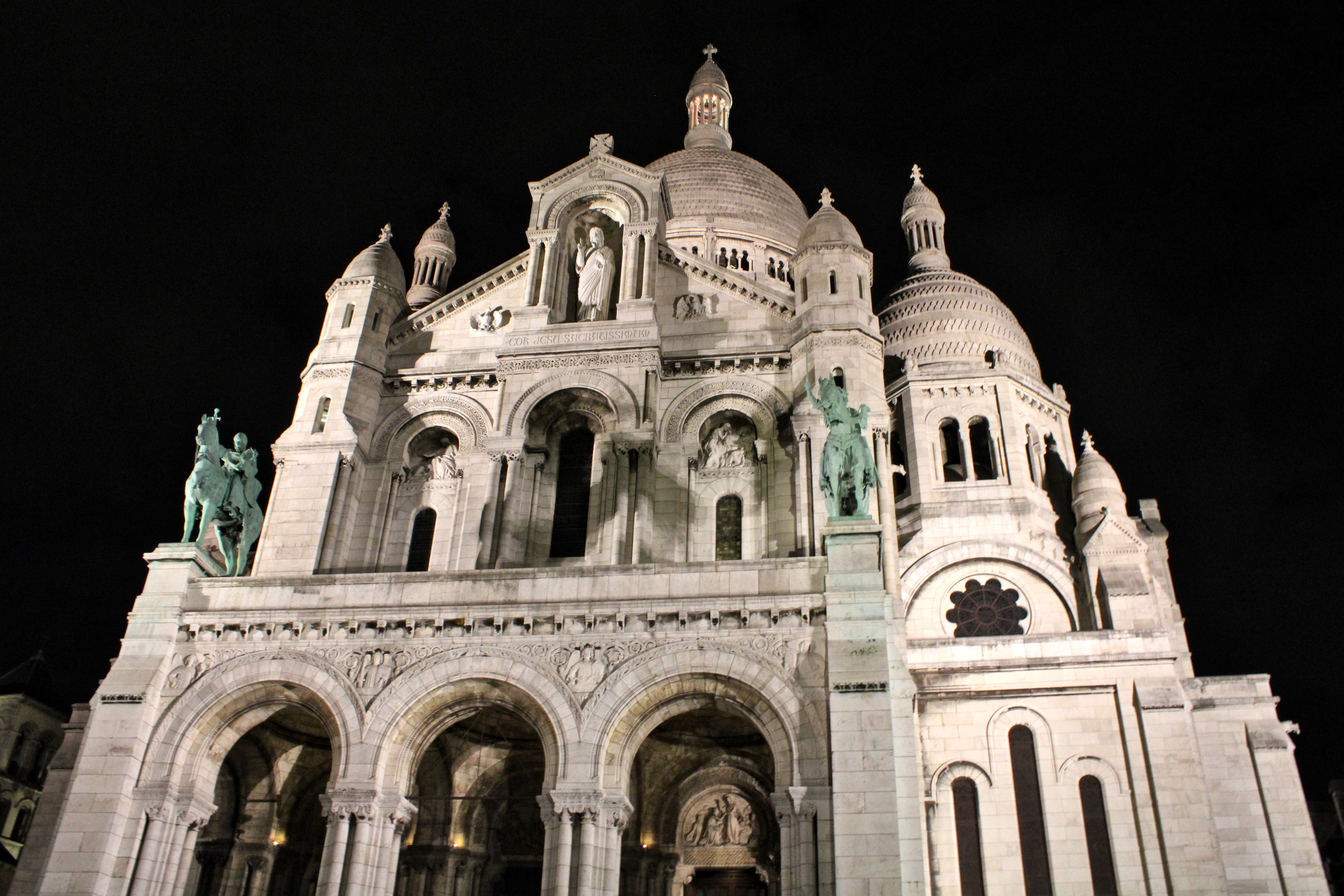 Sacré-Cœur de Montmartre in October 2018